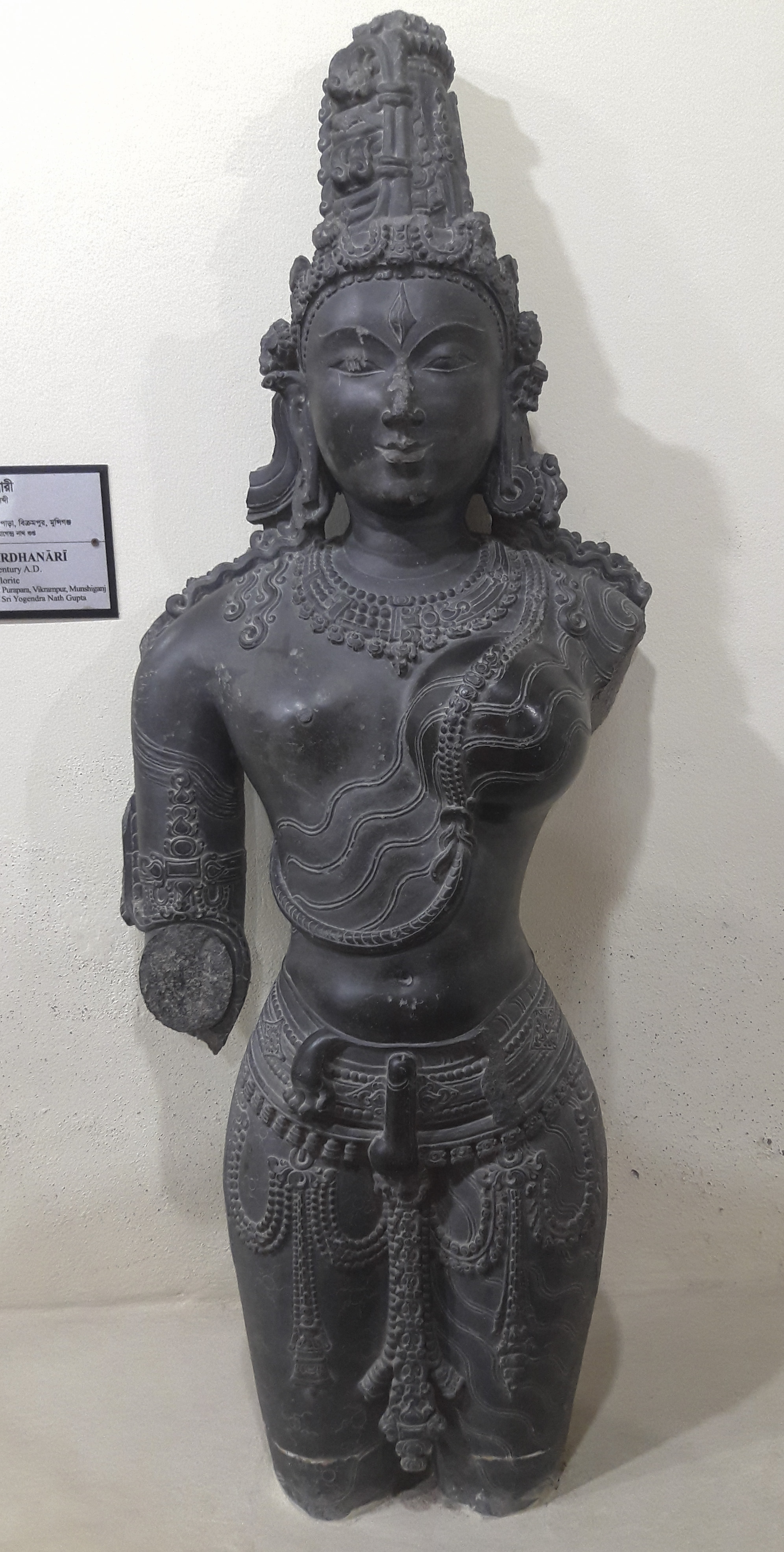 Varendra Museum is a museum, research center and popular visitor attraction located at the heart of Rajshahi town and maintained by Rajshahi University in Bangladesh. It is considered the oldest museum in Bangladesh.